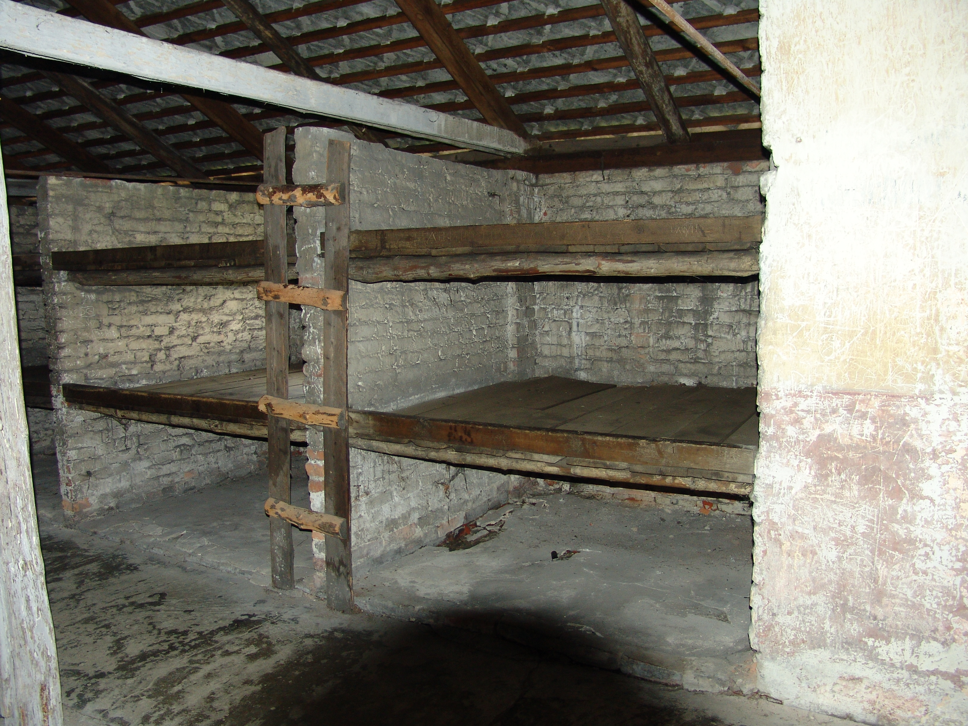 Beds in the former nazi death camp of Birkenau